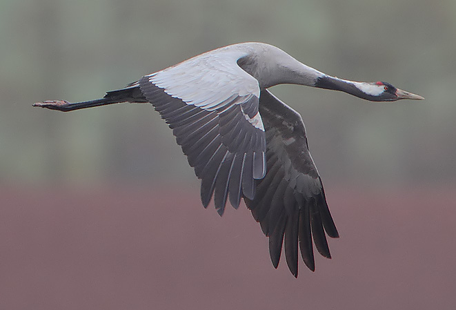 An increasingly common vagrant (?passage migrant) which could possibly be on the edge of re-colonising Scotland. (The historical annals record that the Pictish King Bridei defeated the Northumbrian English at the Battle of Dunnichen at a site known as Linn Garan (the lochan of the Cranes)). Image taken at Loch of Kinnordy, Angus, Scotland.